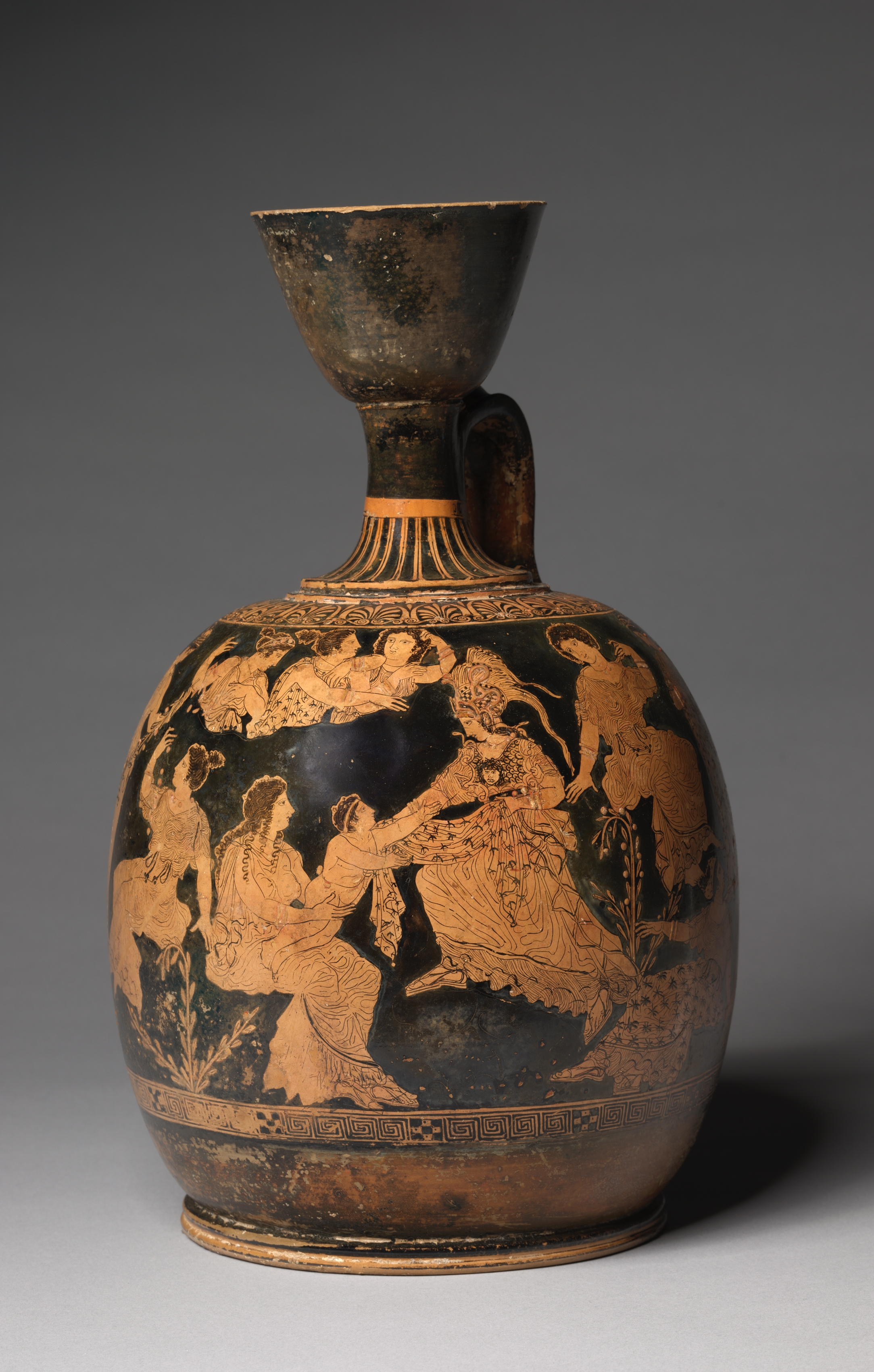 "Here there is beauty: The gleam of gold, loves and ladies with soft limbs, in soft raiment, and all that is shining, easeful and luxurious: perfume, honey and roses." So J.D. Beazley, the renowned connoisseur of Greek vases, described the work of the Meidias Painter, one of the last great Athenian vase painters.